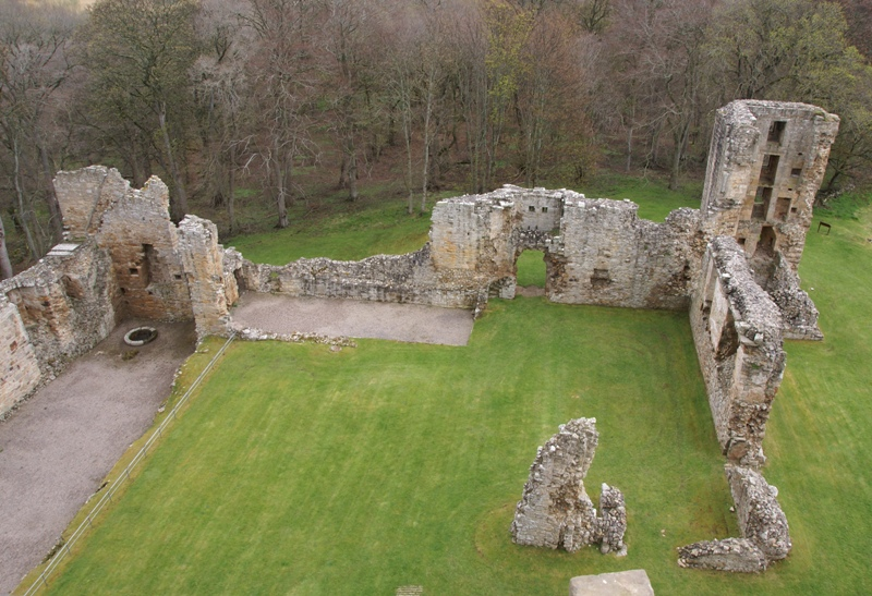 Spynie Palace, Moray, Scotland - east range from west